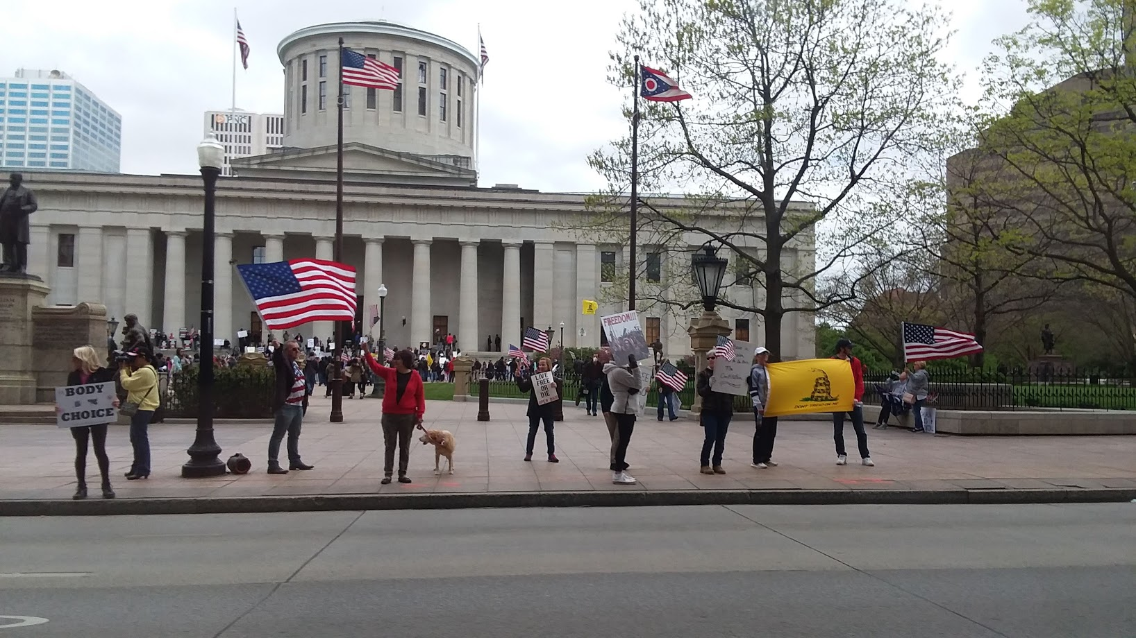 This is a photograph of people protesting against Ohio's COVID-19 lock-down in front of the Ohio Statehouse on May 1, 2020.